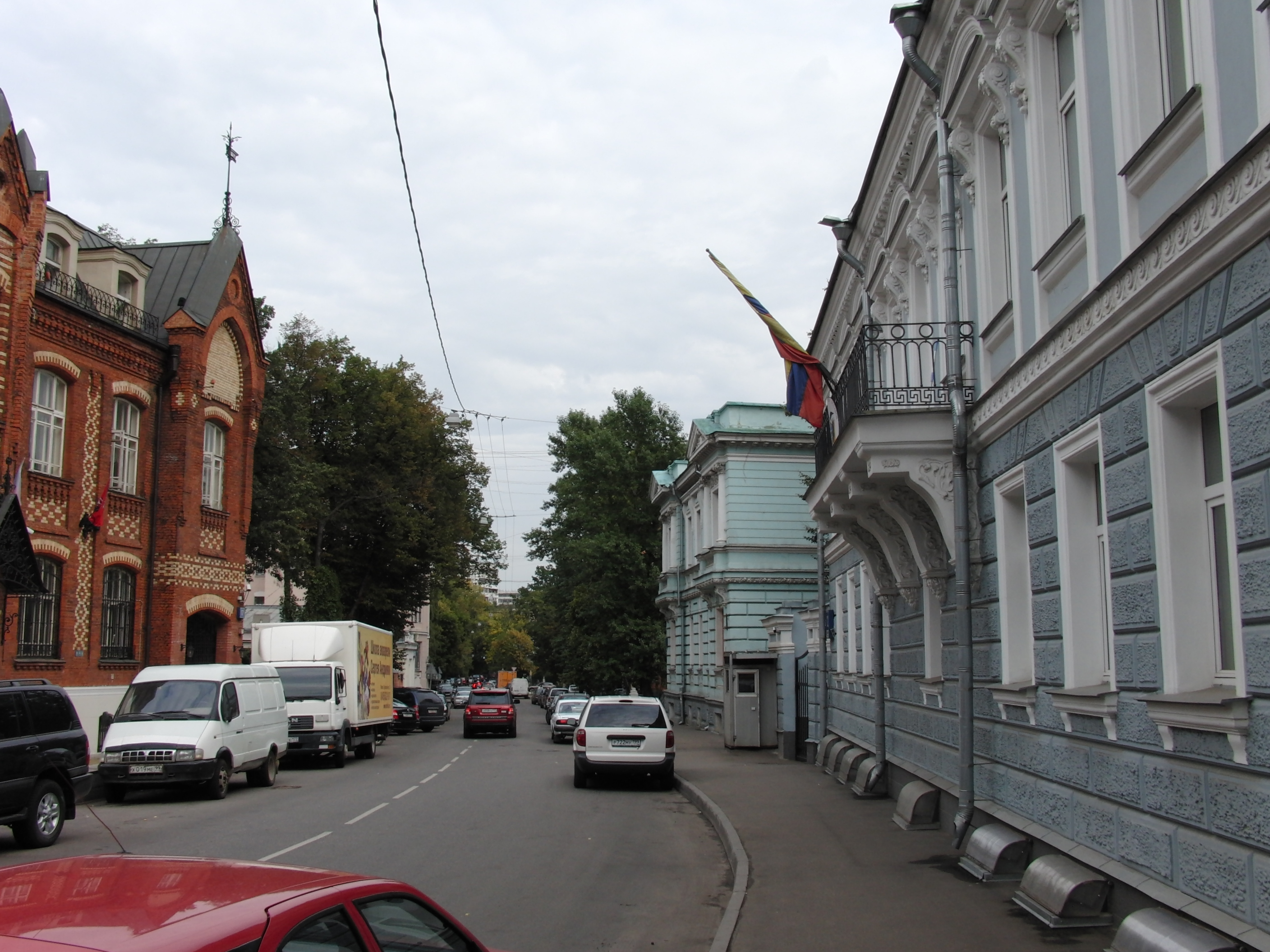 Embassy of Equador, Moscow